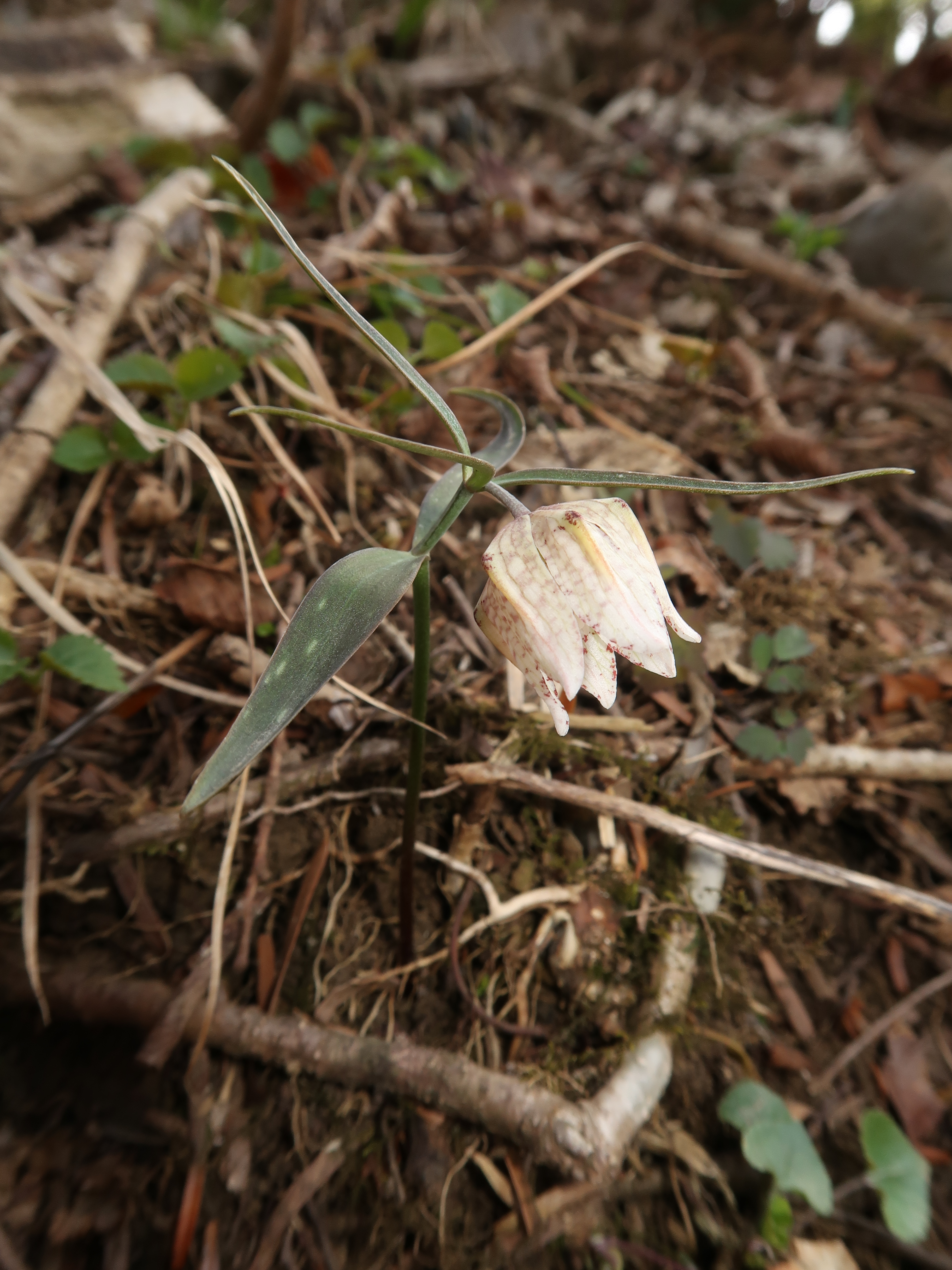 Fritillaria japonica, Mount Fujiwara, Mie pref., Japan